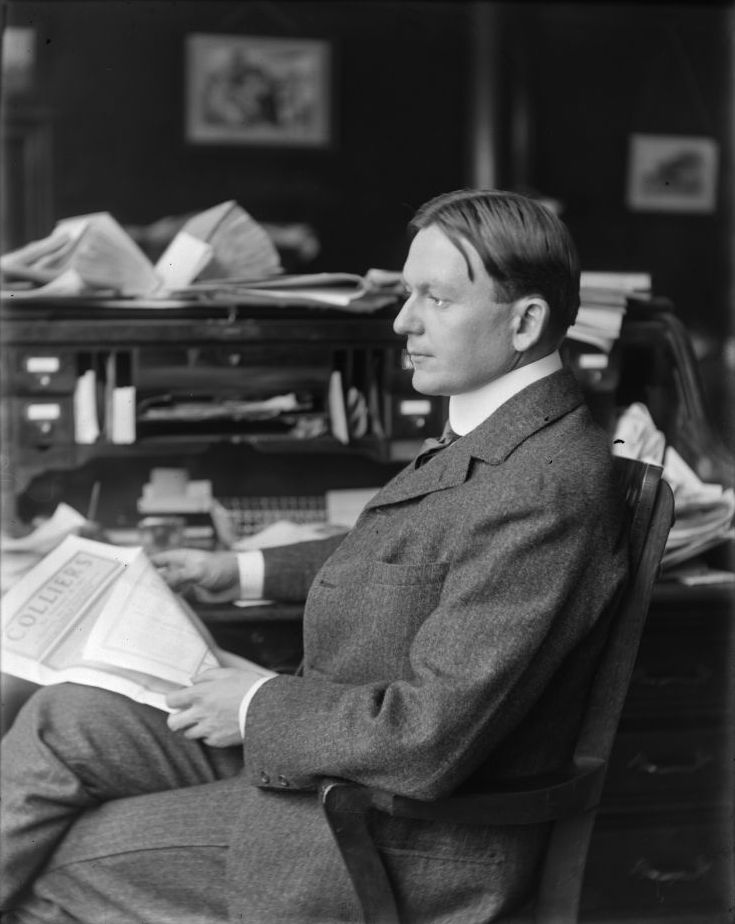 Accession Number: 1974:0056:0847 Maker: William M. Vander Weyde (American 1871–1929) Title: Robert Collier, Publisher Date: ca. 1900 Medium: negative, gelatin on glass Dimensions: 8.5 x 6.5 inches George Eastman House Collection